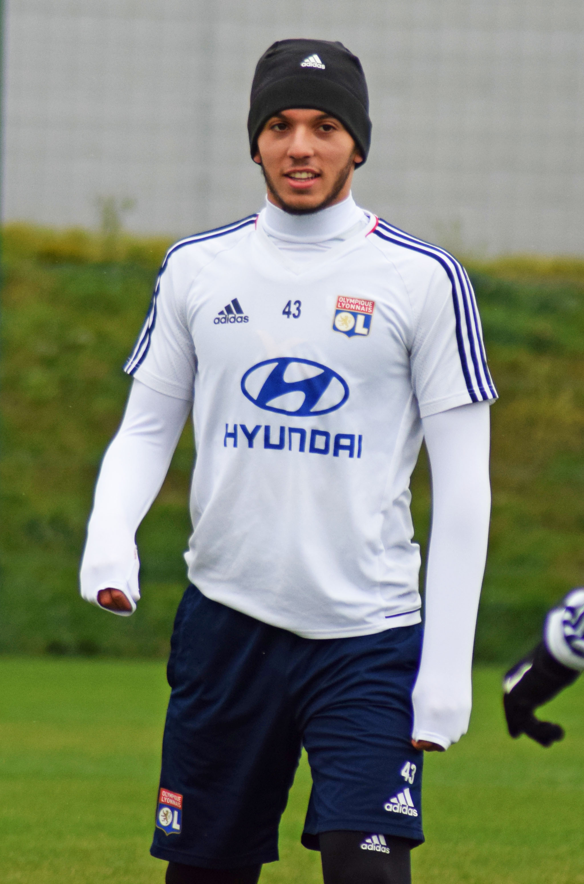 Amine Gouiri in training with Olympique Lyon in 2017.